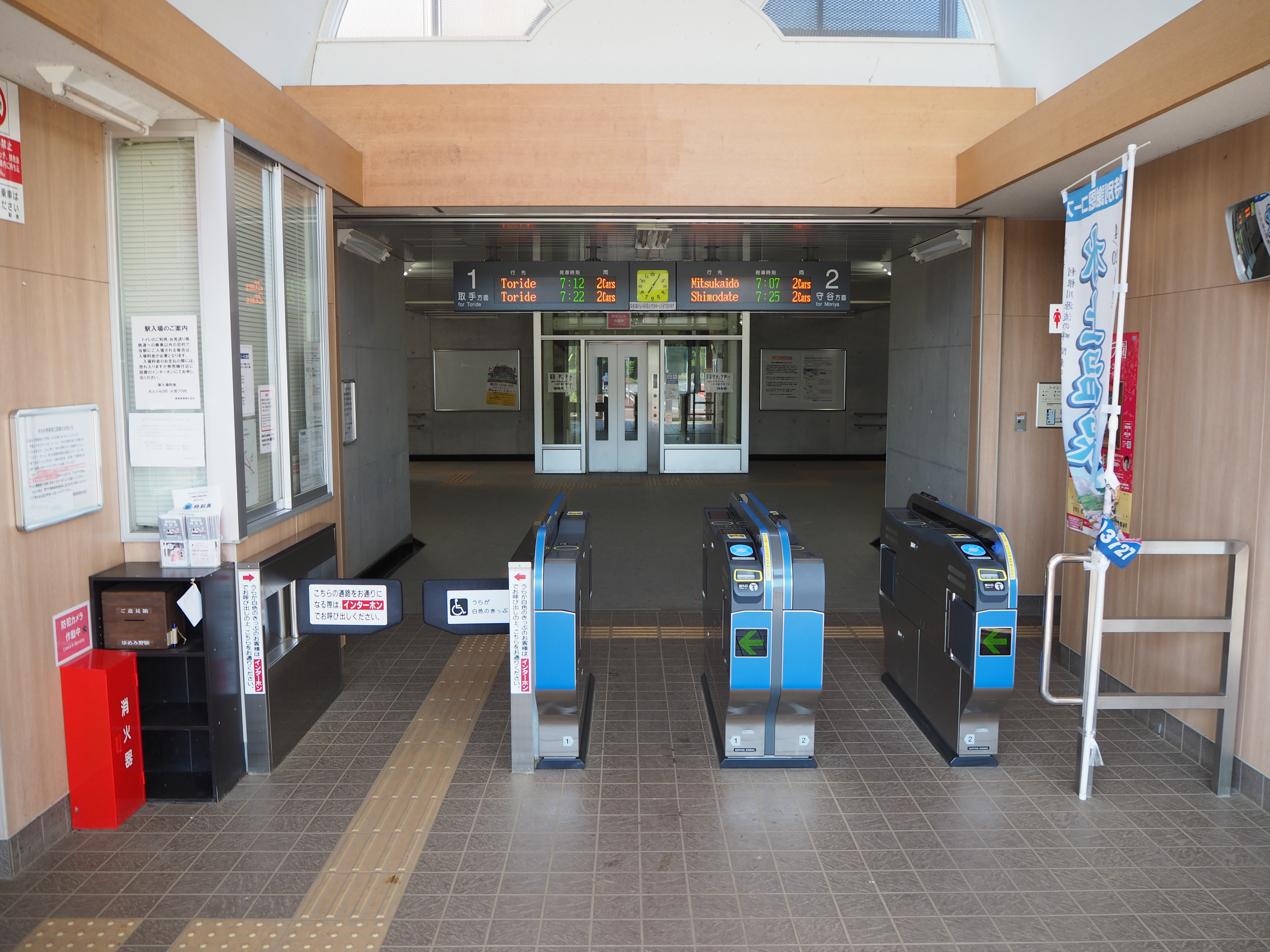 Ticket gate of Yumemino Station